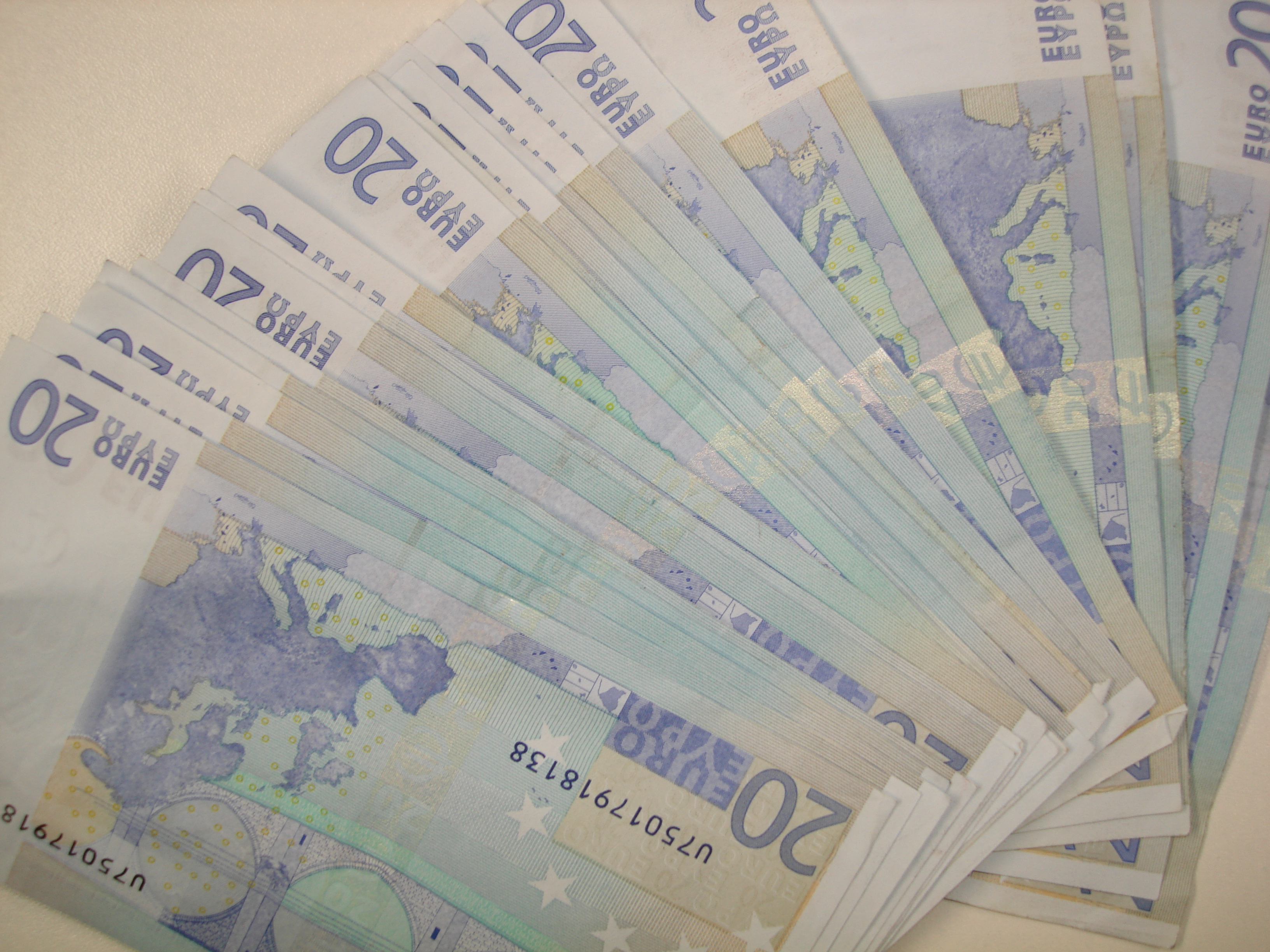 20 Euro banknotes